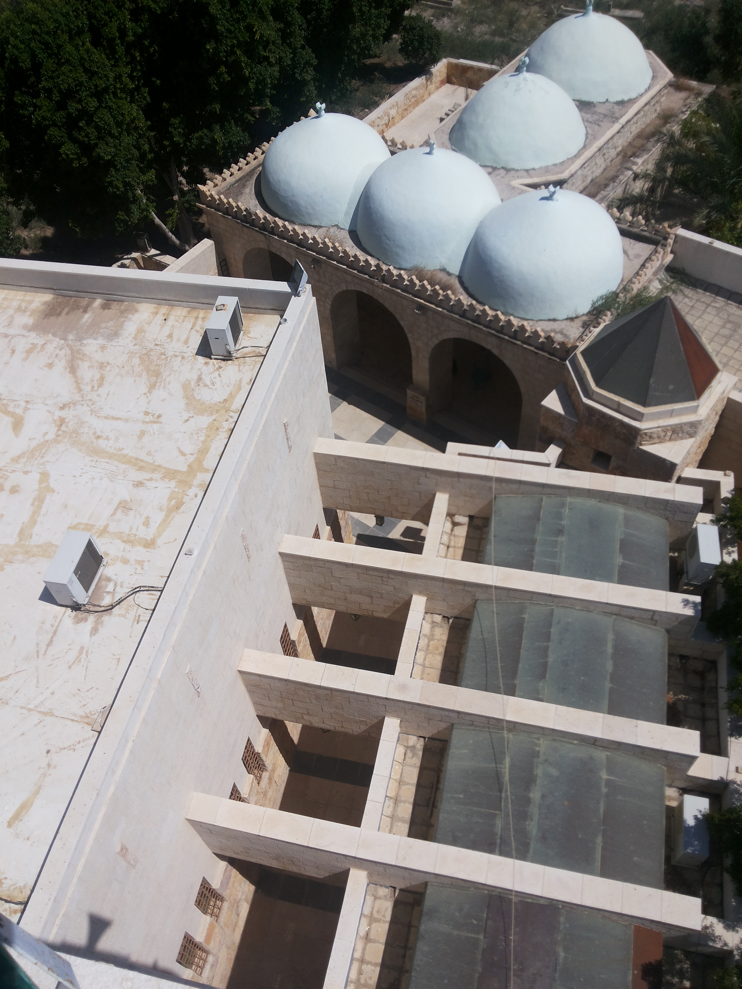 A view from the minaret of Moath Bin Jabal grave, Irbid, Jordan